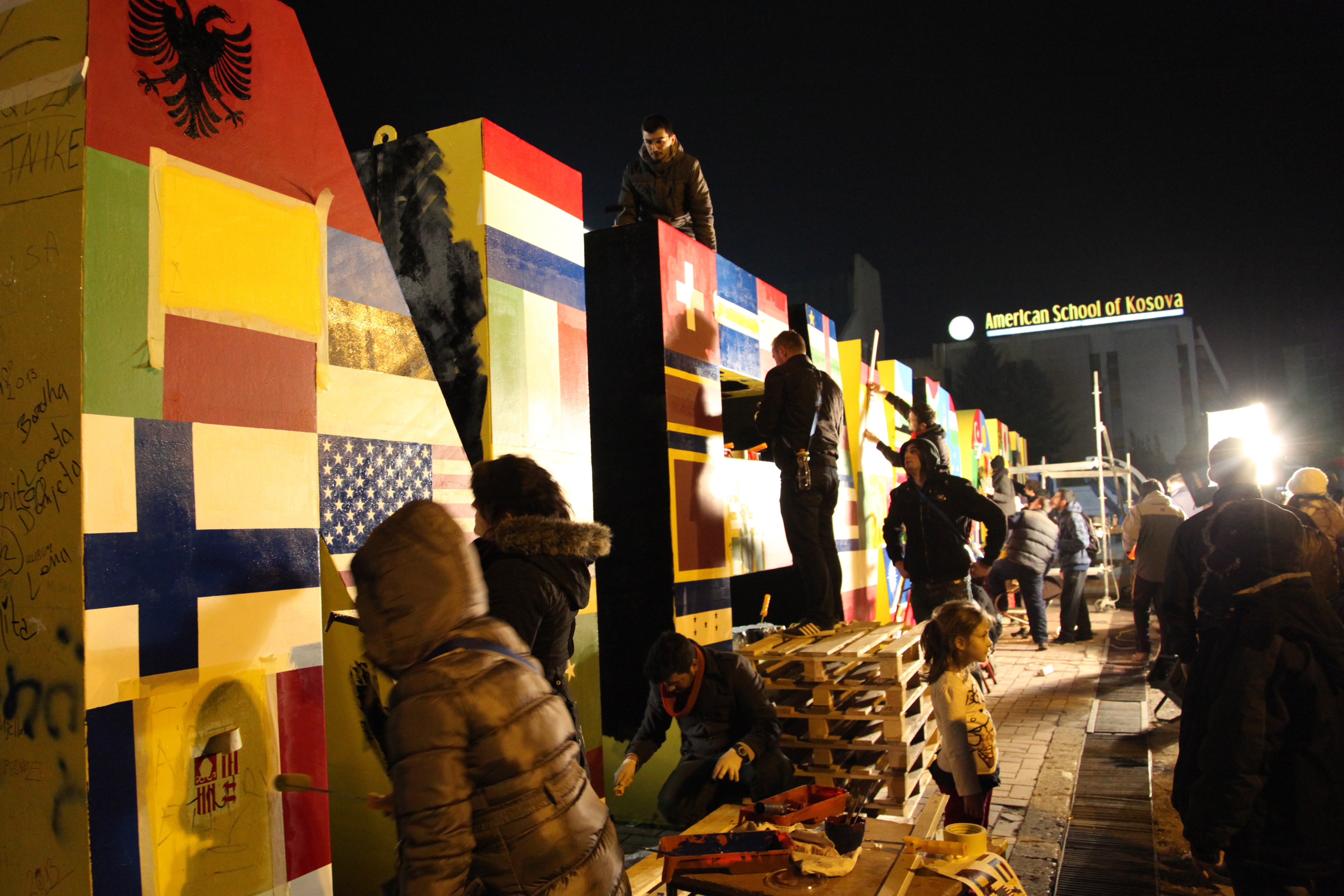 Volunteers painting the monument for its 5th Anniversary.